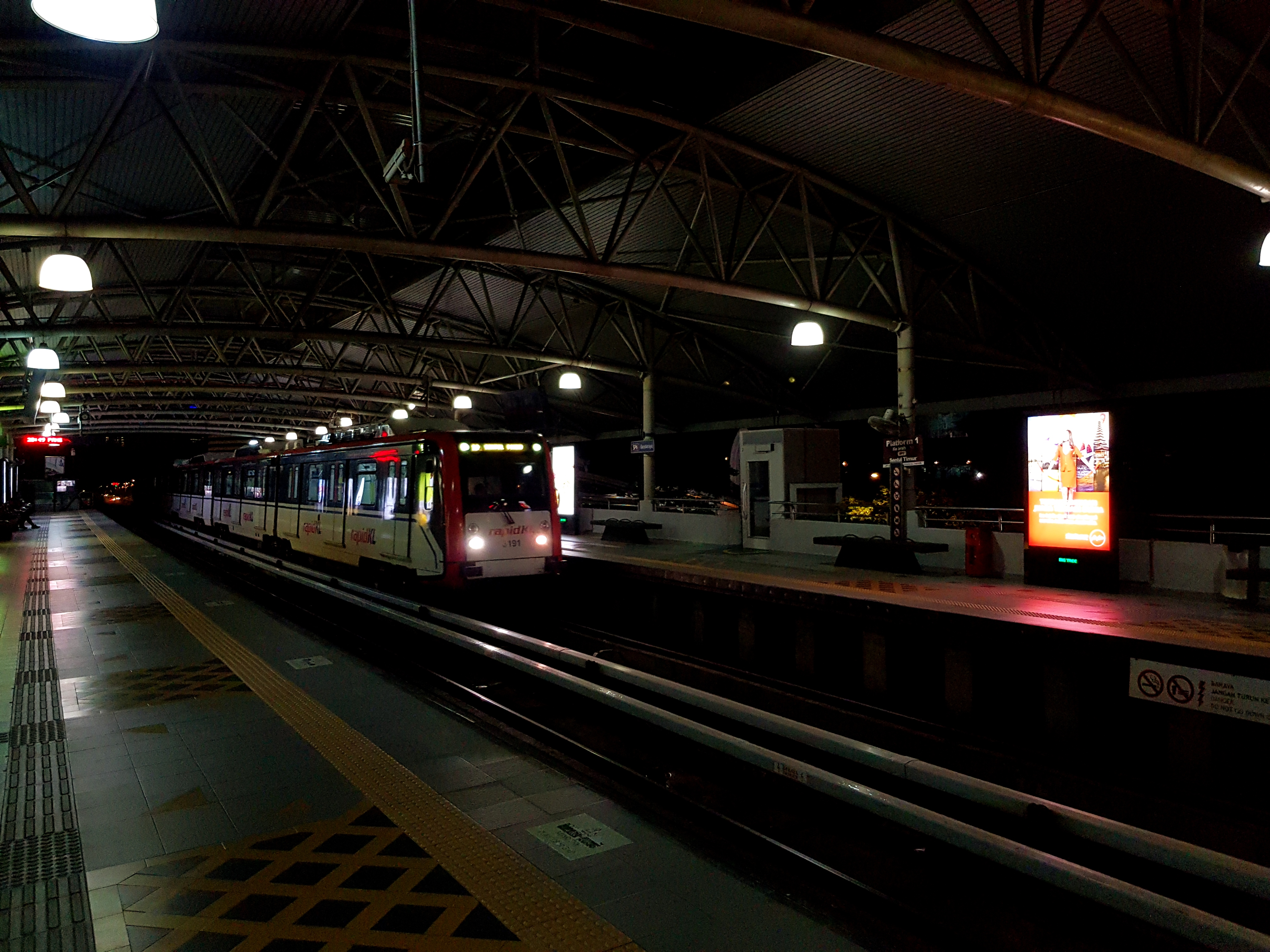 Bandaraya LRT Station at night, Kuala Lumpur, Malaysia